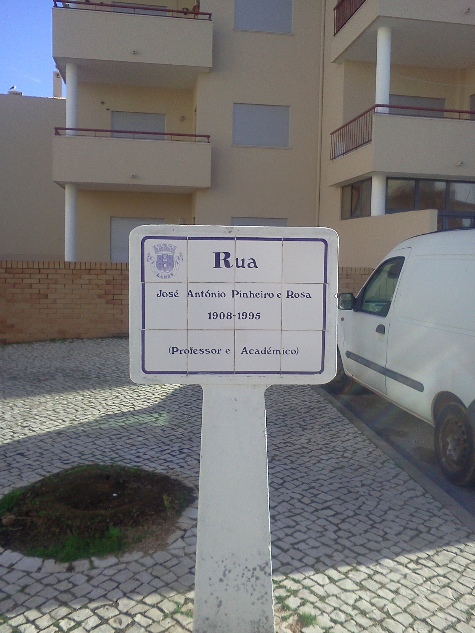 Street sign of Rua José António Pinheiro e Rosa, in the city of Lagos, in southern Portugal.